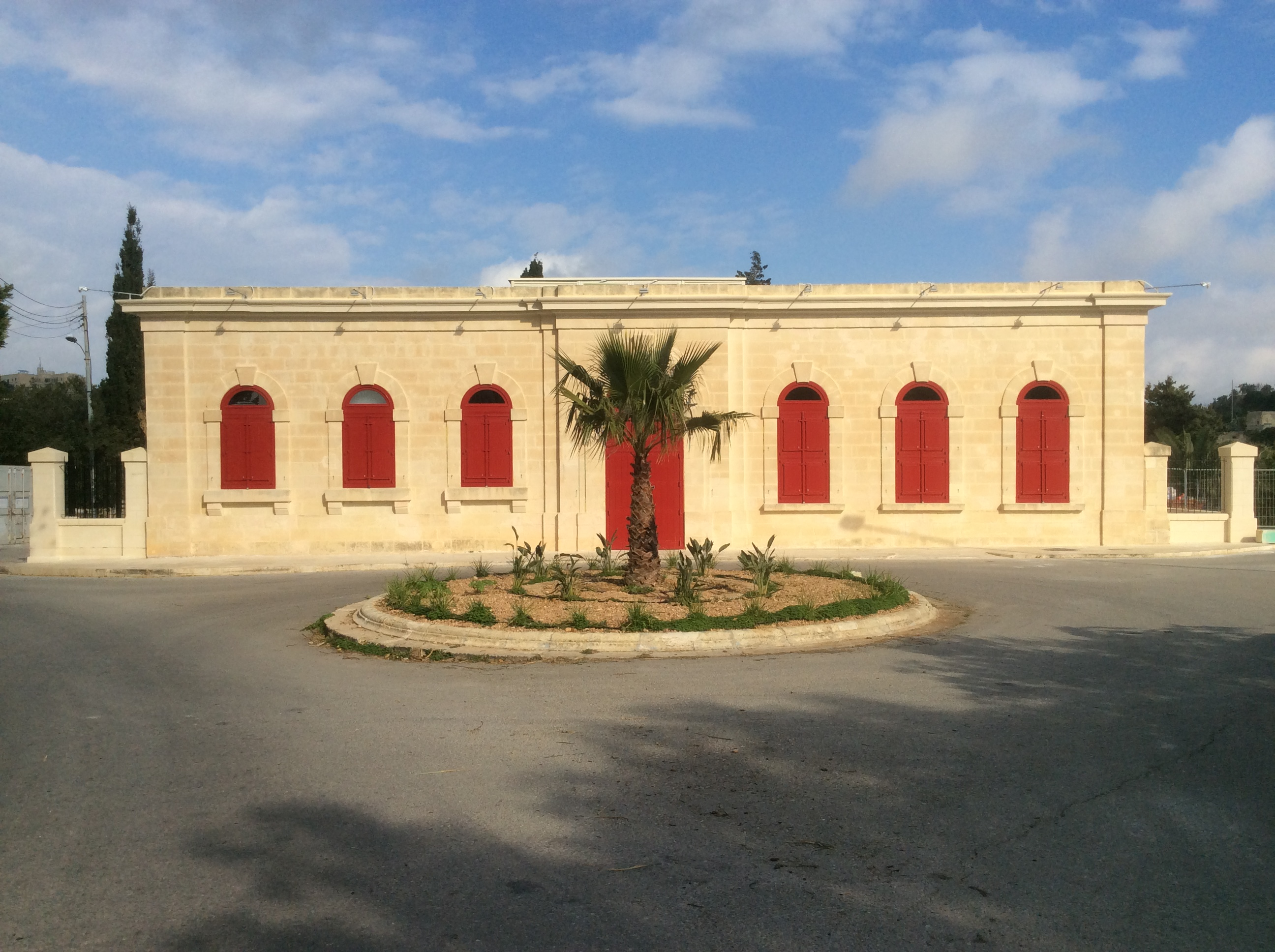 Railway Museum in 2015, Rabat-Mdina-Malta